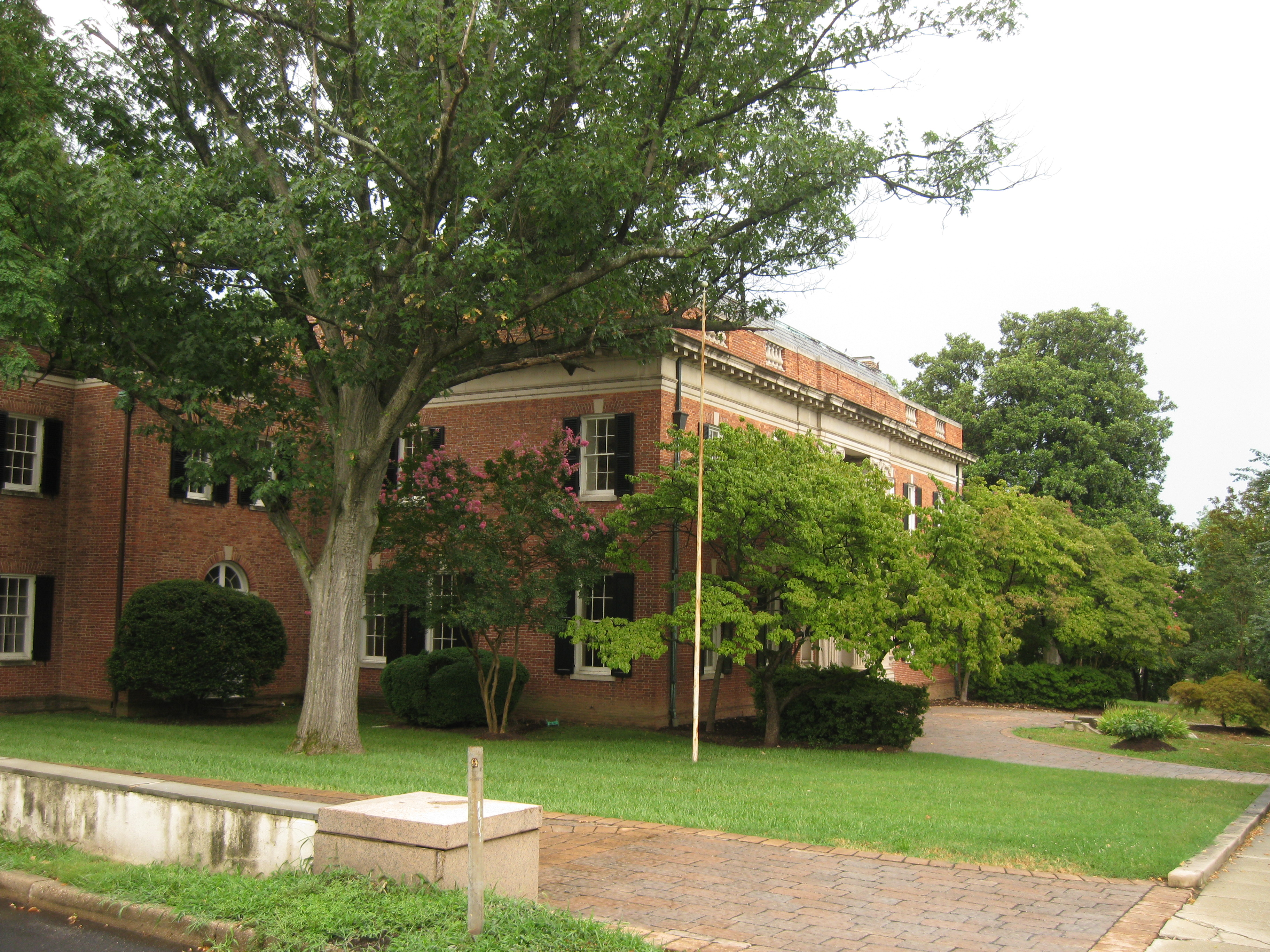 Former Iranian embassy at Washington D.C. The US State Department is the current custodian of the building, which was built in 1959..